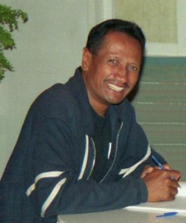 Elie Rajaonarison, celebrated Malagasy poet, writer and advocate for traditional culture and the arts, photographed at the Centre Germano-Malagasy (CGM) in Antananarivo, Madagascar in 1999